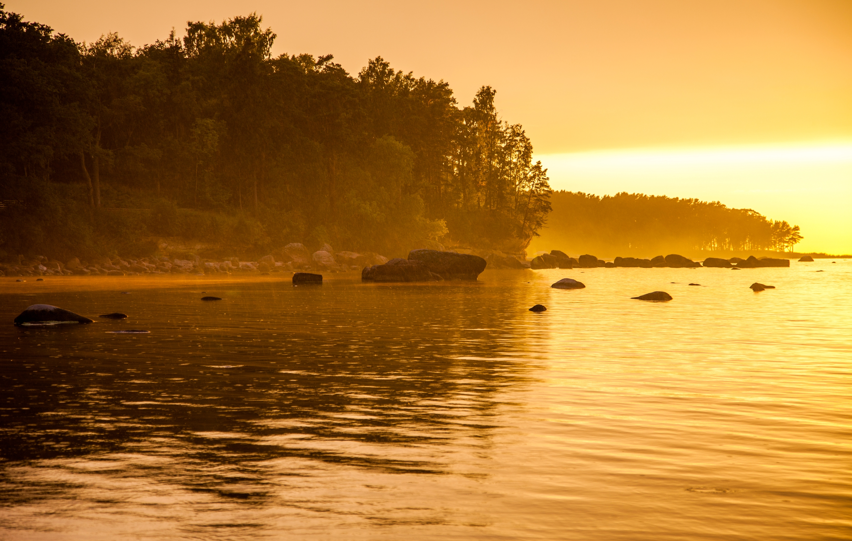 Rainy golden hour at Muraste Nature Reserve, Estonia.